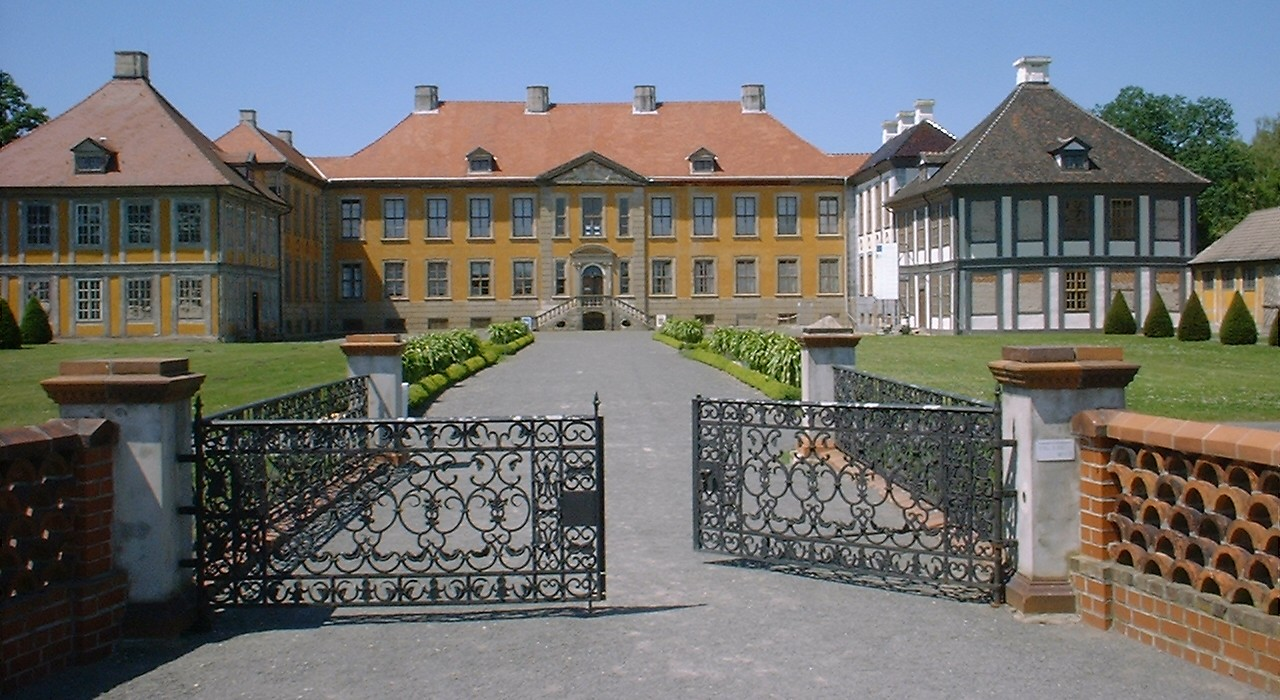 Palace in Oranienbaum in Saxony-Anhalt, Germany